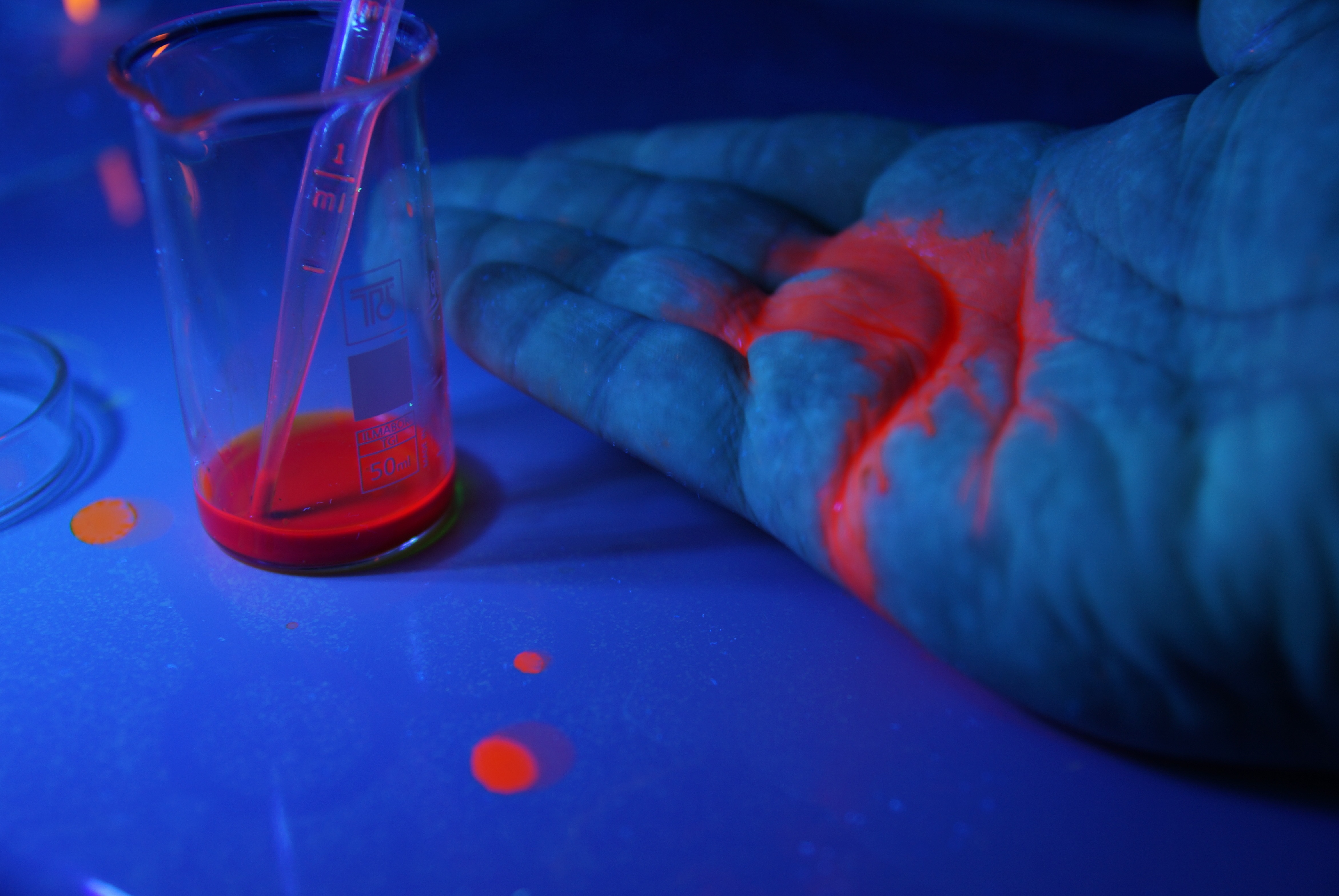 Chlorophyll extract in ethyl acetate fluorescense in UV rays.